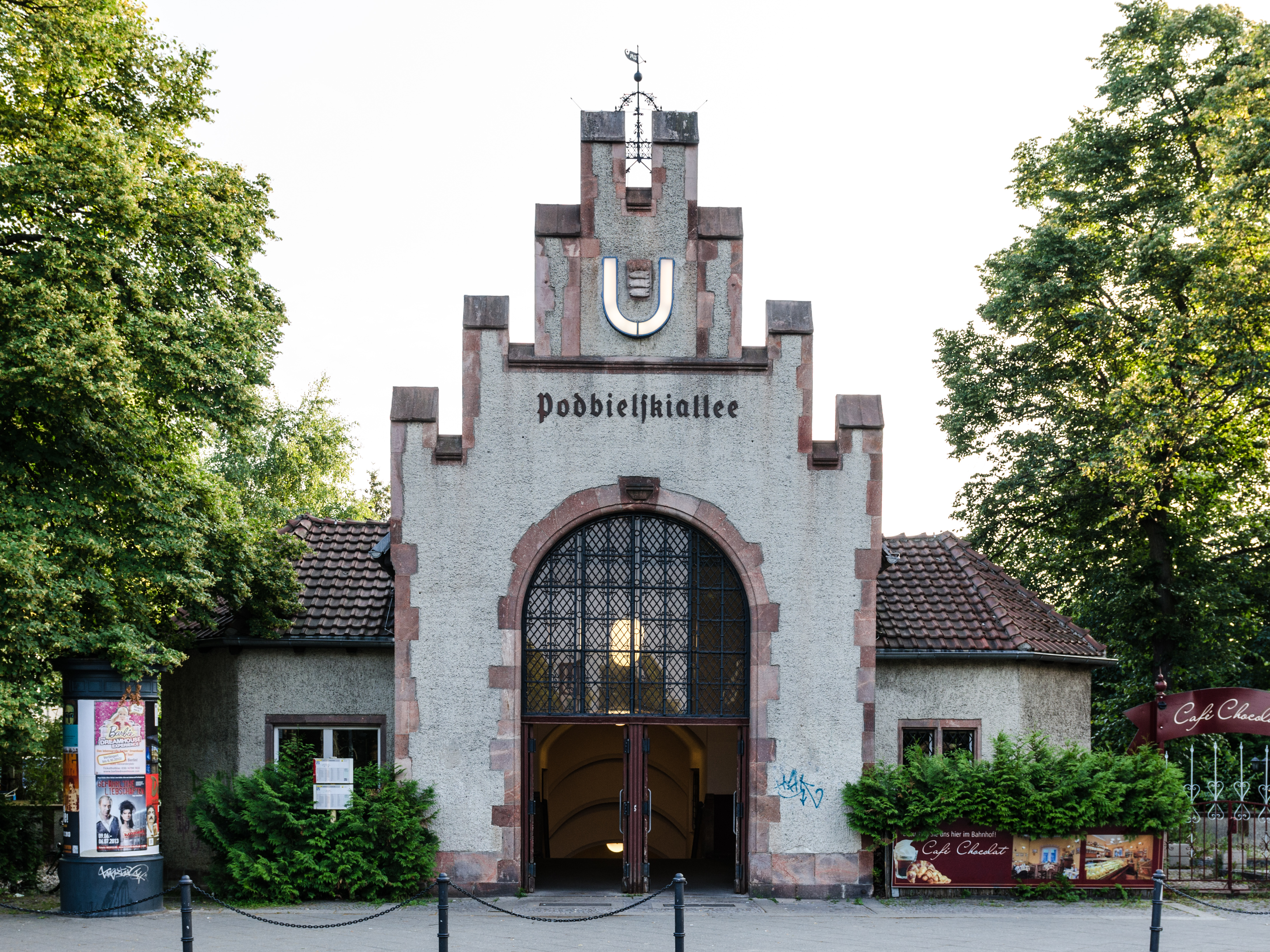 The entry and main building of the U3 station Podbielskiallee